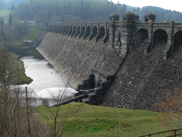 Vyrnwy Dam